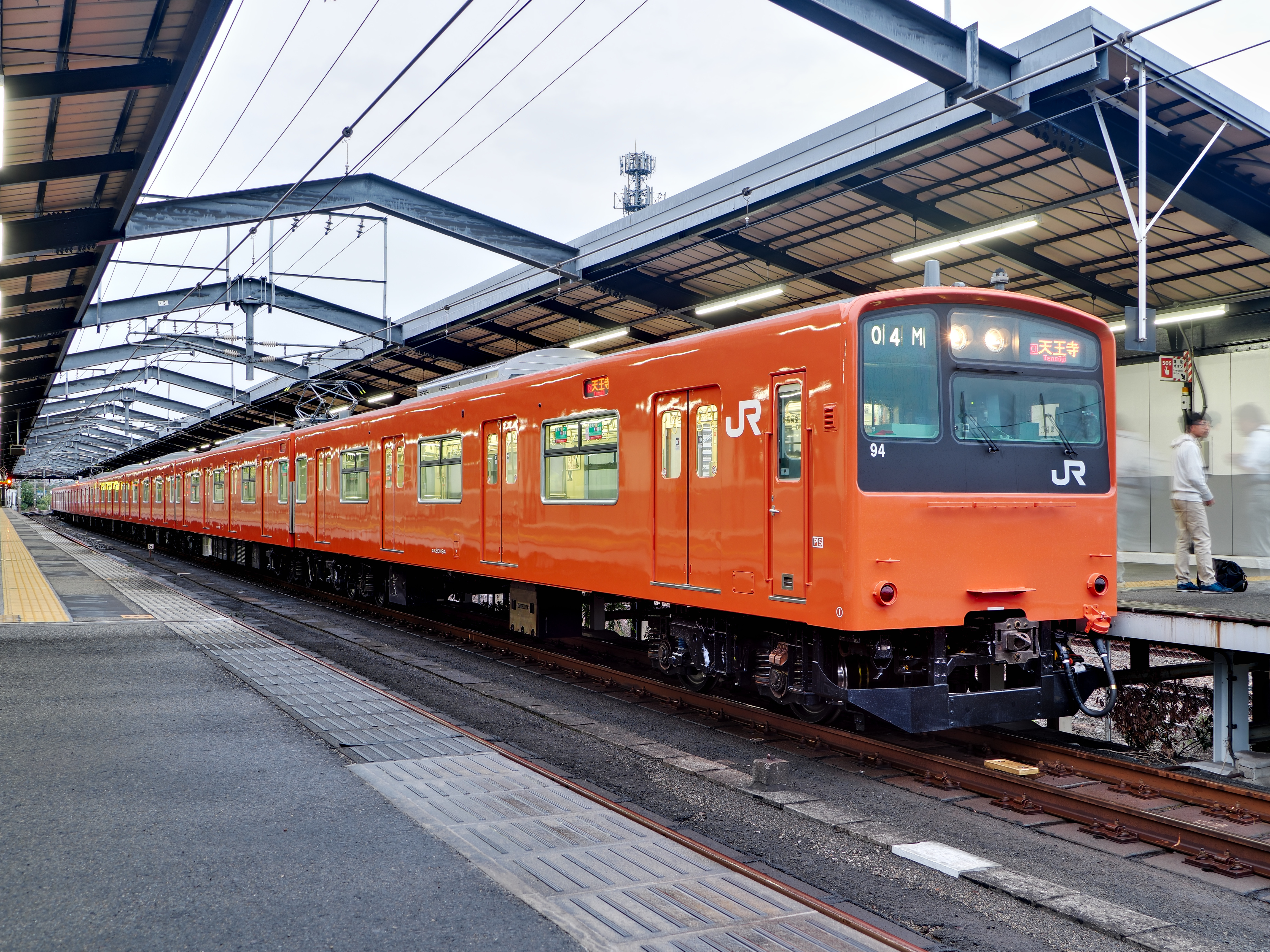 Refurbished JR West 201 series EMU set LB9 at Osakajokoen Station on the Osaka Loop Line in Japan